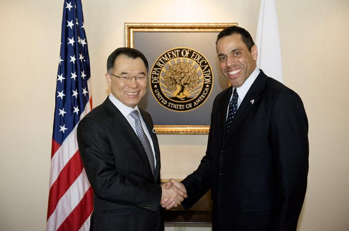 Shin'ichi Yamanaka, Deputy Minister of Education, Culture, Sports, Science and Technology, met Anthony W. Miller, Deputy Secretary of Education, at the Department of Education in Washington, D.C. on March 12, 2012.